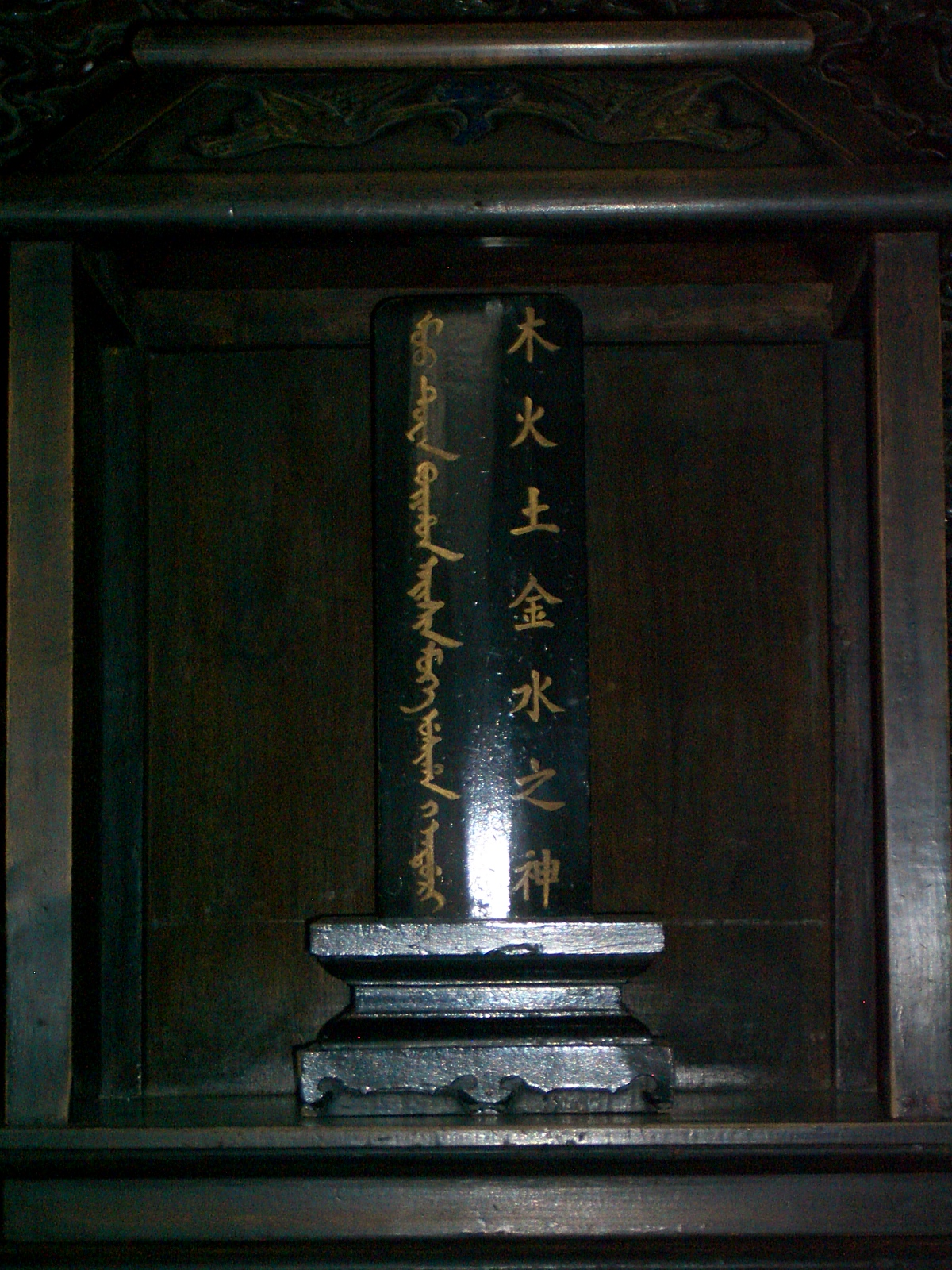 A tablet with dedication, in Chinese and Manchu to the God(s) of Wood, Fire, Soil, Metals, and Water, in (or near) the Imperial Vault of Heaven Text: 「木火土金之神」 -`Mù huǒ tǔ jīn zhī shén'- Text: ᠮᠣᠣ ᡨᡠᠸᠠ ᠪᠣᡳᡥᠣᠨ ᠠᡳᠰᡳᠨ ᠮᡠᡴᡝ ᡠᠰᡳᡥᠠ ᡳ ᡝᠨᡩᡠᡵᡳ -moo tuwa boihon aisin muke usiha-i enduri